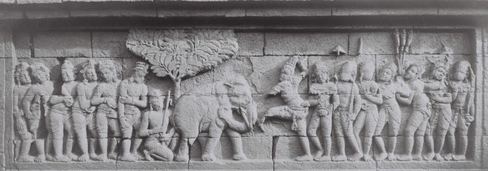 Relief panel "Devadatta kills the elephant", Borobudur, Central-Java.